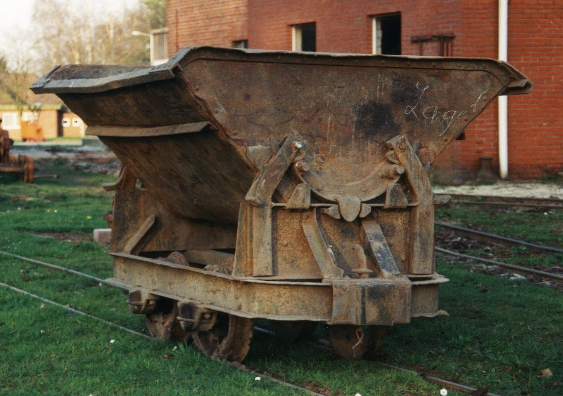 A tipping waggon in a peat-plant in northern germany My own photo from spring 1999